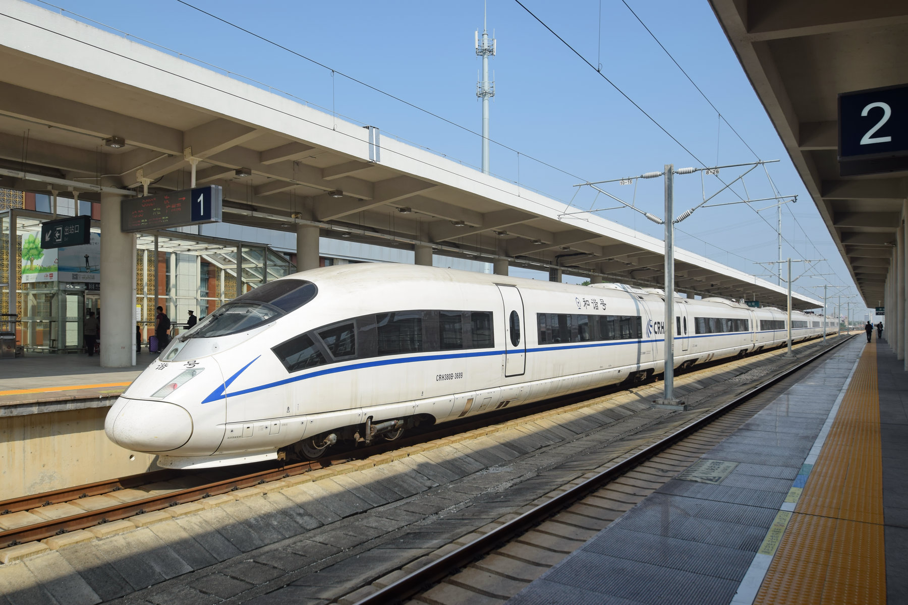 G6327 CRH380B-3689 EMU was stopping at Platform 1 of Chaoshan Railway Station.